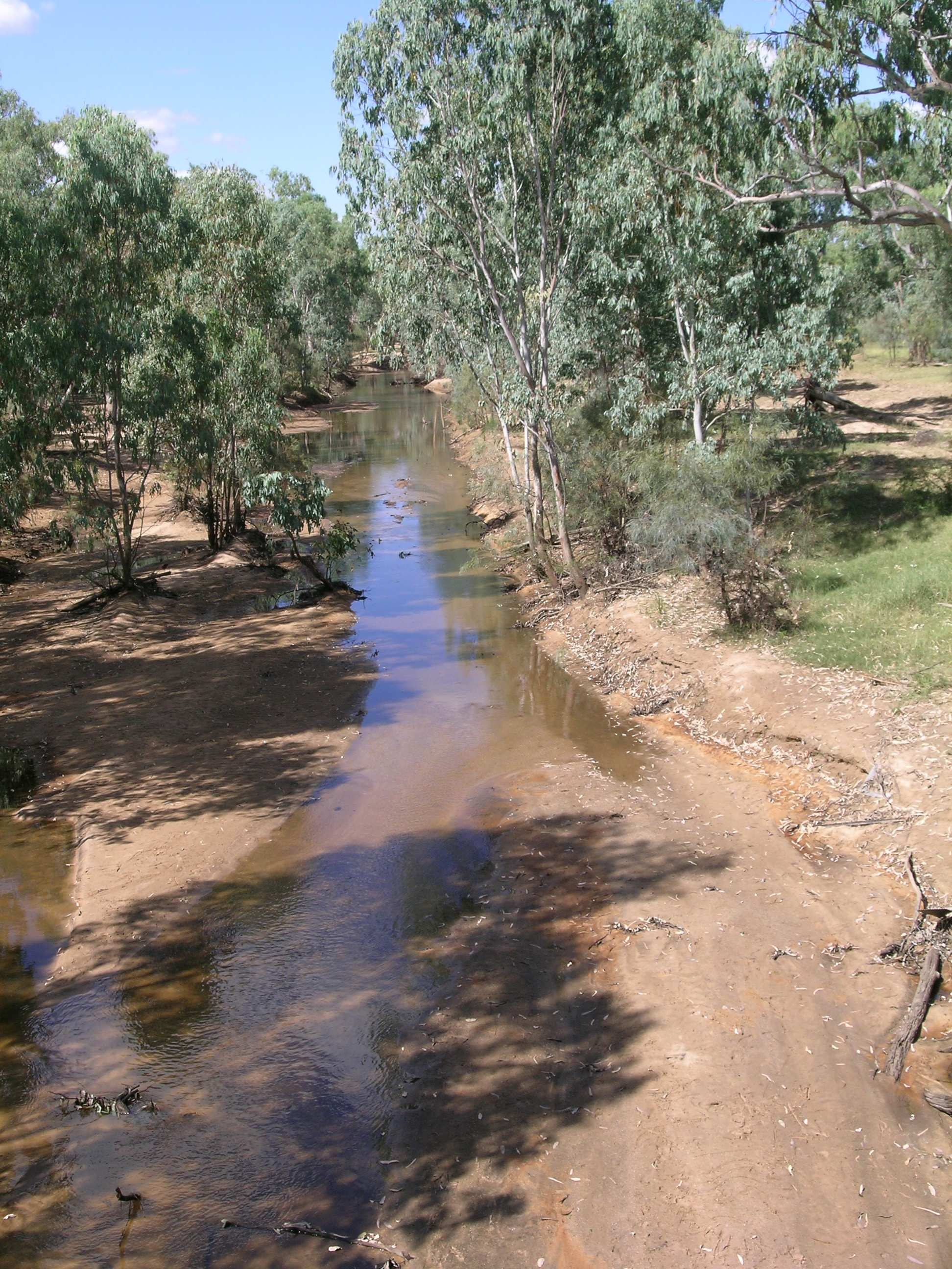 The Alice River near the Landsborough (Matilda) Hwy., Barcaldine, QLD.